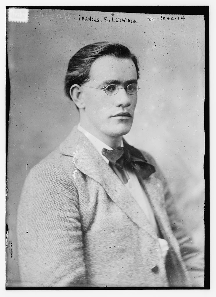 Frances E. Ledwidge circa 1914 Bain News Service,, publisher. Frances E. Ledwidge [between ca. 1910 and ca. 1915] 1 negative : glass ; 5 x 7 in. or smaller. Notes: Title from unverified data provided by the Bain News Service on the negatives or caption cards. Forms part of: George Grantham Bain Collection (Library of Congress). Format: Glass negatives. Repository: Library of Congress, Prints and Photographs Division, Washington, D.C. 20540 USA, General information about the Bain Collection is available at Persistent URL: Call Number: LC-B2- 3042-14